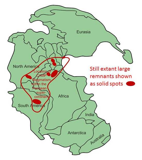 Coarse summary of the locations as discussed in Blackburn, Terrence J. (2013). "Zircon U-Pb Geochronology Links the End-Triassic Extinction with the Central Atlantic Magmatic Province". Science 340: 941–945.